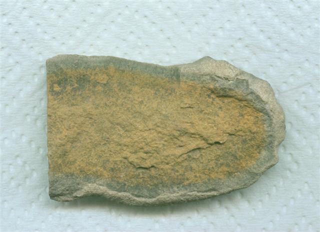 carved stone tool from Lothal (India)